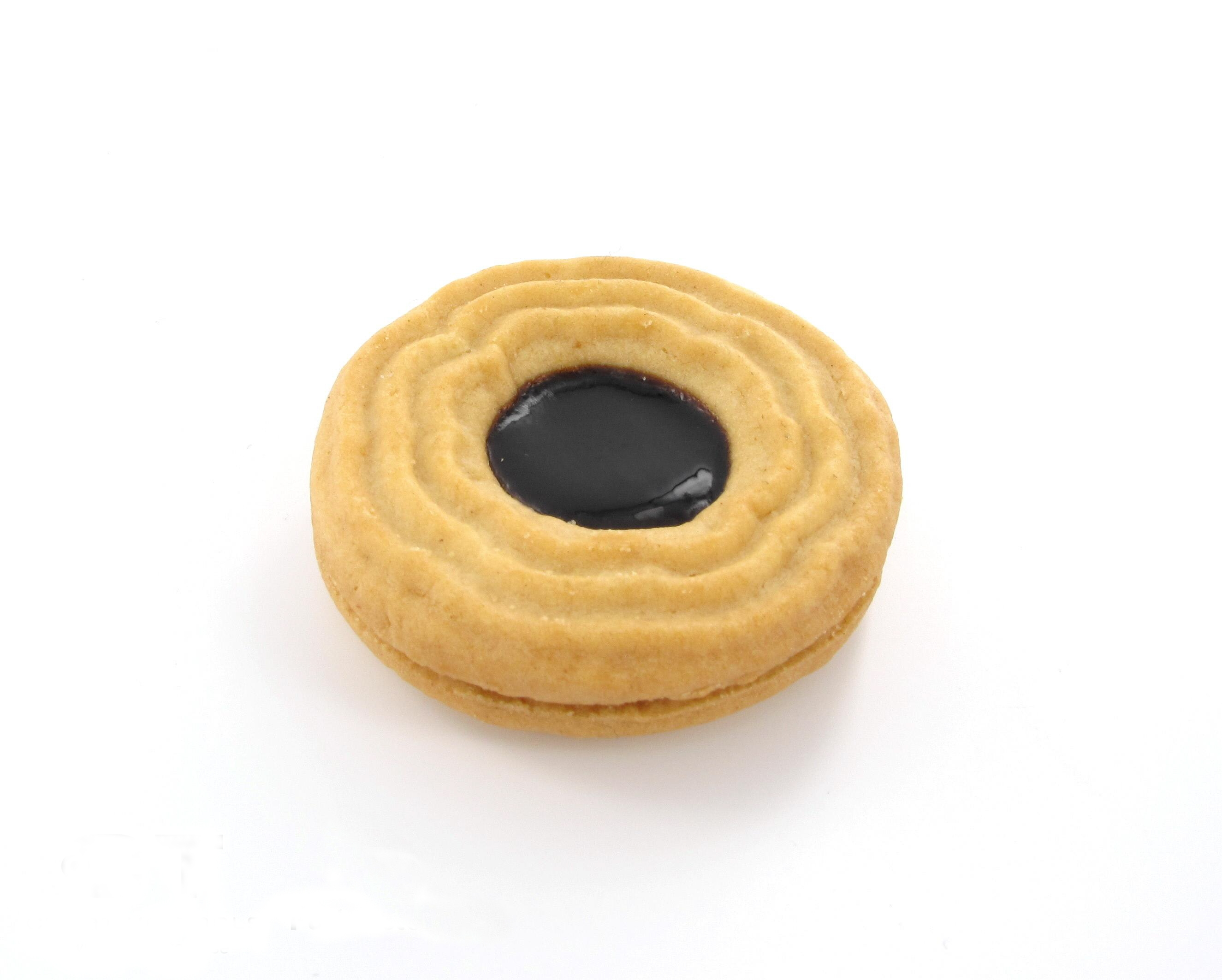 Image of a cookie taken with a PackshotCreator photo studio by Creative Tools AB.